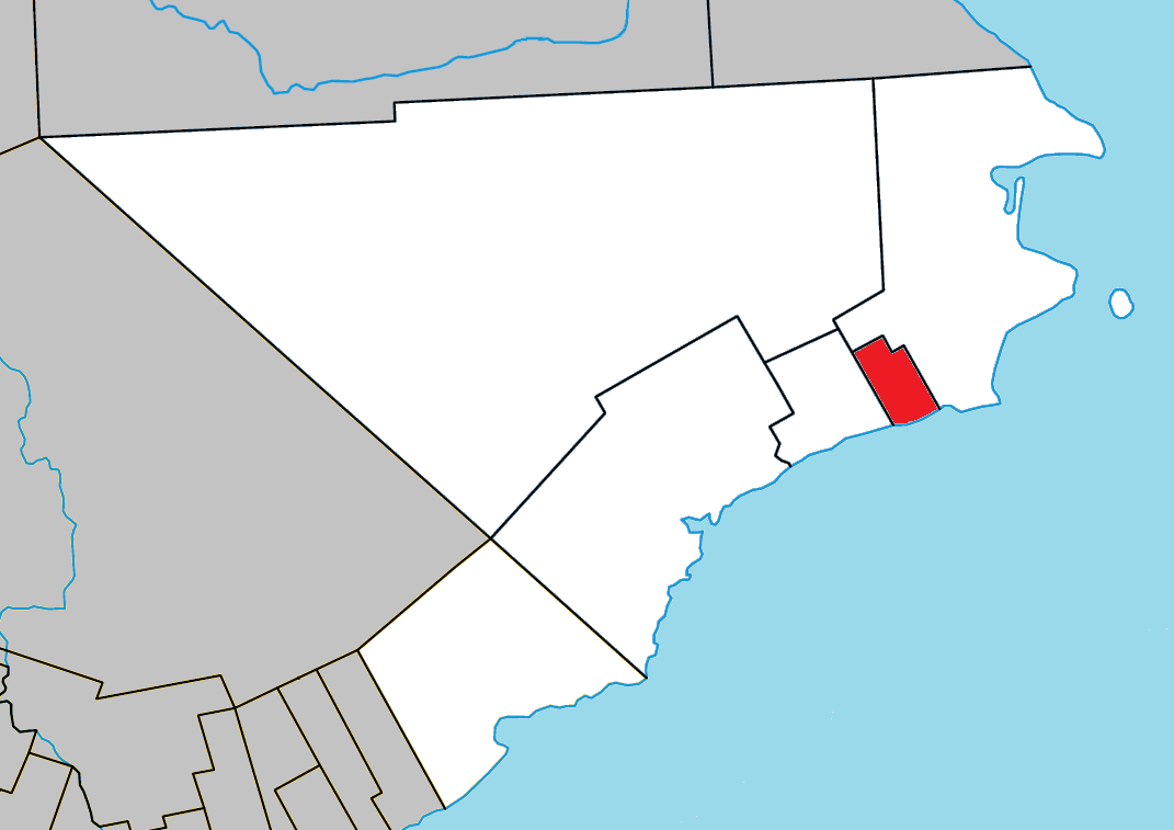 Location of Sainte-Thérèse-de-Gaspé, Quebec within Le Rocher-Percé Regional County Municipality.